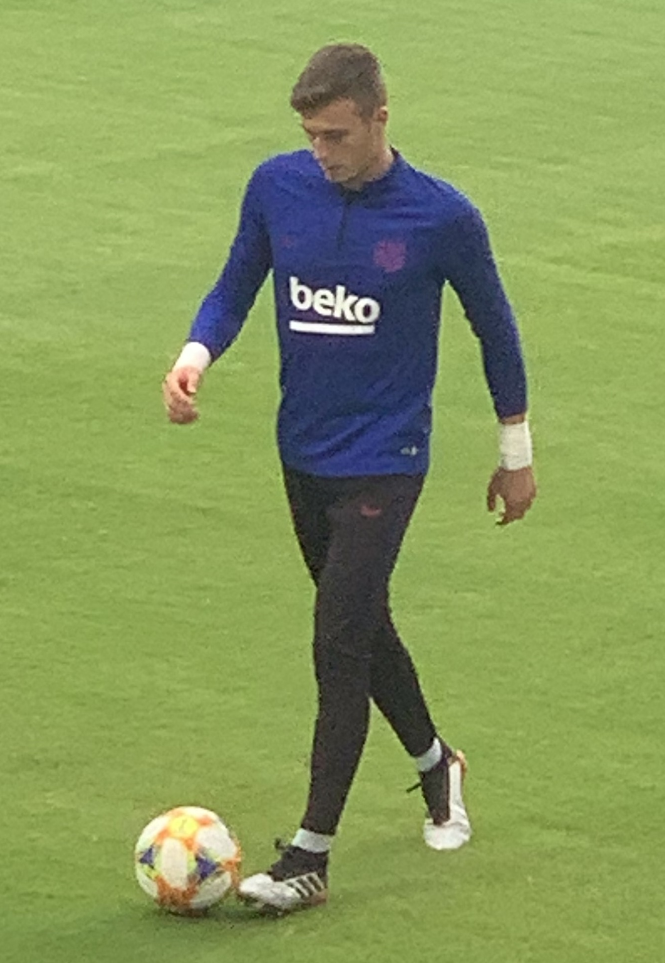 Barcelona friendly against Napoli in Miami, Florida.